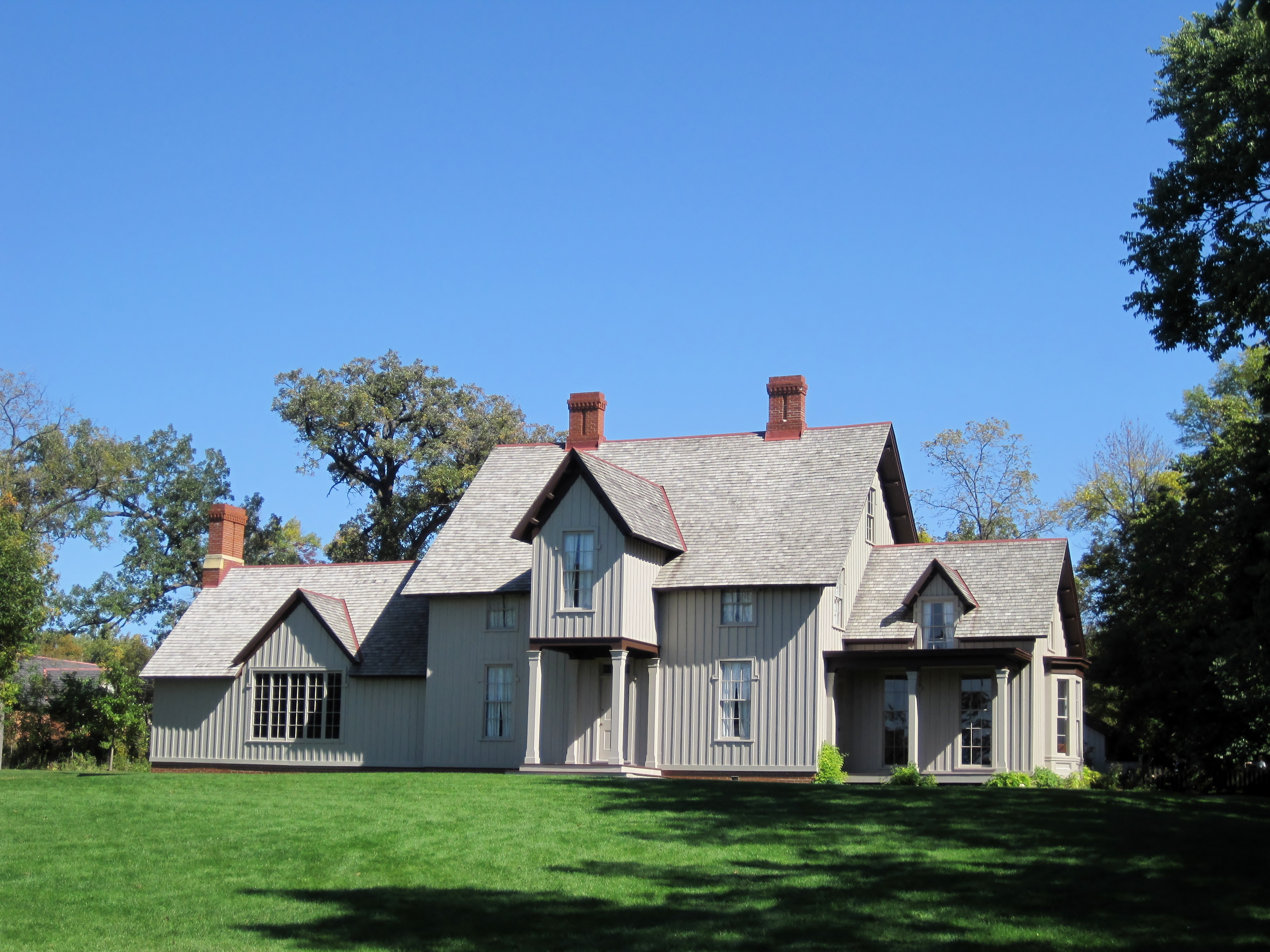 Kennicott's Grove in Glenview (1856). Robert Kennicott was a naturalist who studied the flora and fauna of Illinois. He was able to financially sustain his hobby by surveying for railroads. Kennicott was one of the co-founders of the Chicago Academy of Sciences in 1857. The newly-founded Northwestern University in Evanston received a small collection of flora and fauna to start a natural history museum; the next year he sent material to the University of Michigan. Kennicott also surveyed land for the first telegraph line across the Bering Strait. His experiences in Alaska were influential in William Seward's decision to purchase Alaska during the Johnson administration. At the age of only 30, Kennicott suffered a heart attack on this survey and died on the shore of the Yukon River. Several Alaskan features are named after him, including the now-ghost town (and popular tourist site) of Kennecott. He discovered many new species over his life, especially snakes.